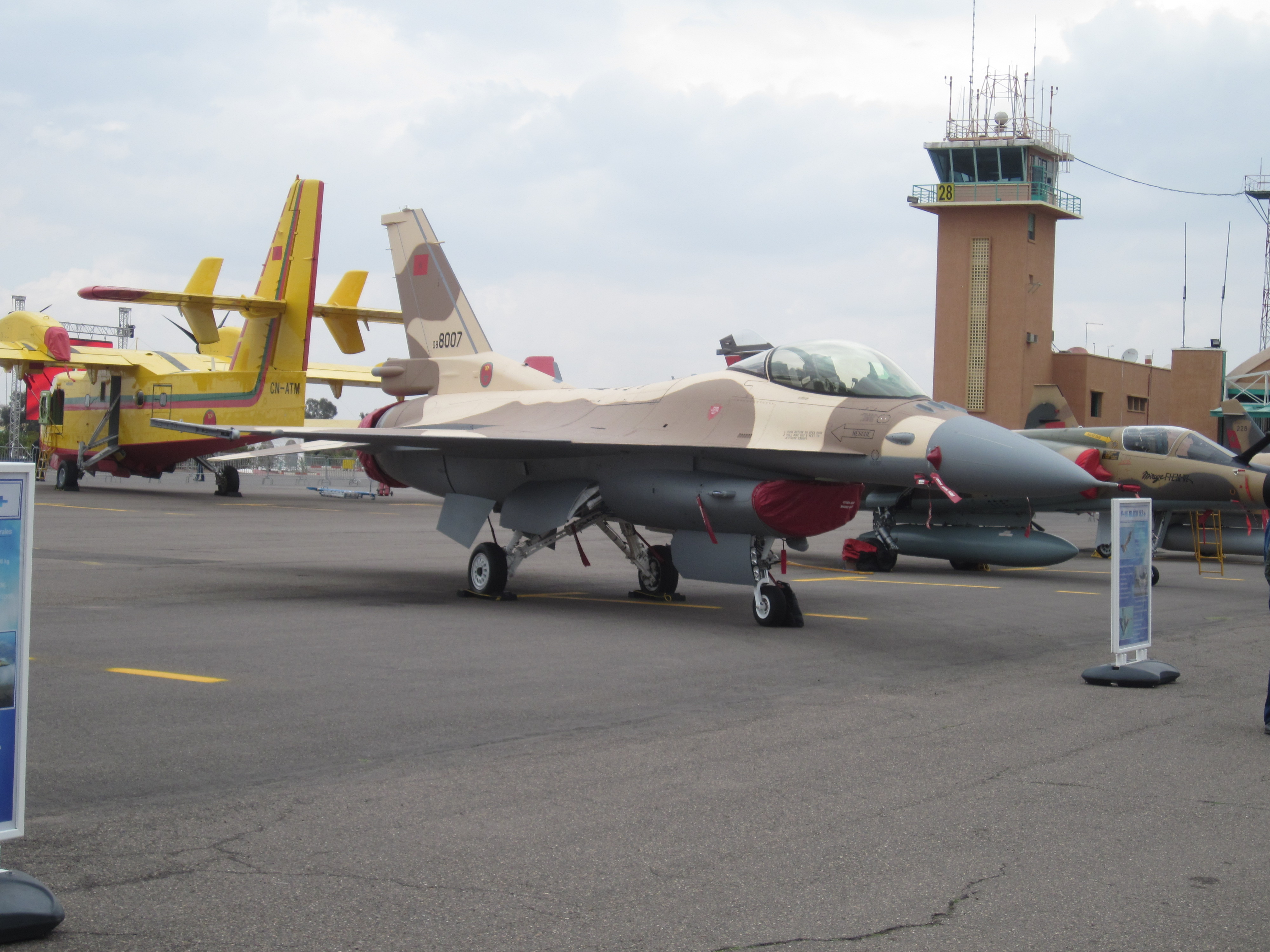 Royal Moroccan Air Force F-16 at the 2012 Marrakech Air Show